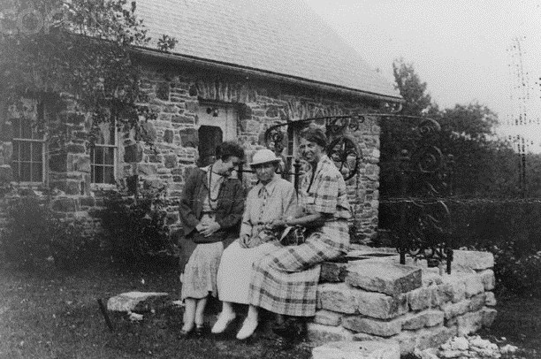 1920 --- Future first lady Eleanor Roosevelt (right) at Westbrook, Connecticut, with personal aide Malvina Thompson and attorney Elizabeth Read at Salt Meadow. Image by CORBIS